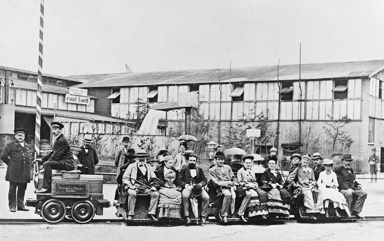 First electric locomotive, build in 1879 by German engineer Ernst Werner von Siemens.